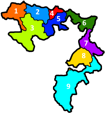 A map of the Parliamentary constituencies of Republika Srpska, Bosnia and Herzegovina